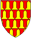 Arms of William de Ferrers, 5th Earl of Derby (1193–1254) Vaire or and gules